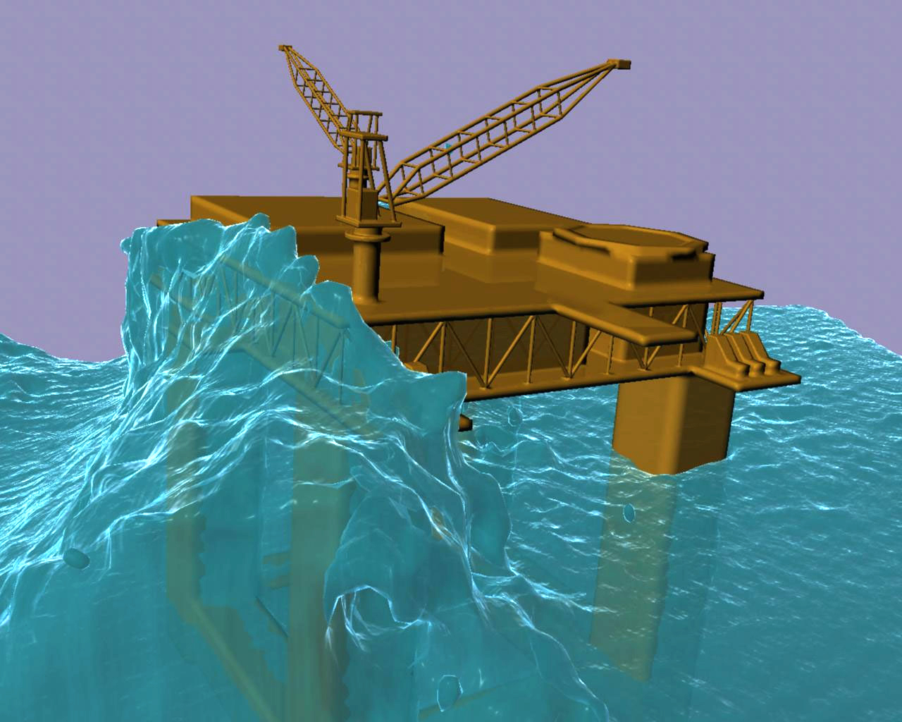 CSIRO scientists have created 'rogue waves' more than 20 metres high and smashed them into virtual oil and gas production platforms to compare different mooring designs. The computer modelling project compares how different types of semi-submersible oil rigs withstand the effects of giant waves in the open ocean. Rogue waves are rare, extreme events that pose a risk to shipping and offshore structures and can lead to loss of life. CSIRO is using fluid-flow mathematics and computer modelling to assist in the sensible and safe design of oil platforms. The mathematical technique used is called Smoothed Particle Hydrodynamics and was originally developed in astrophysics to model stars forming and galaxies exploding.